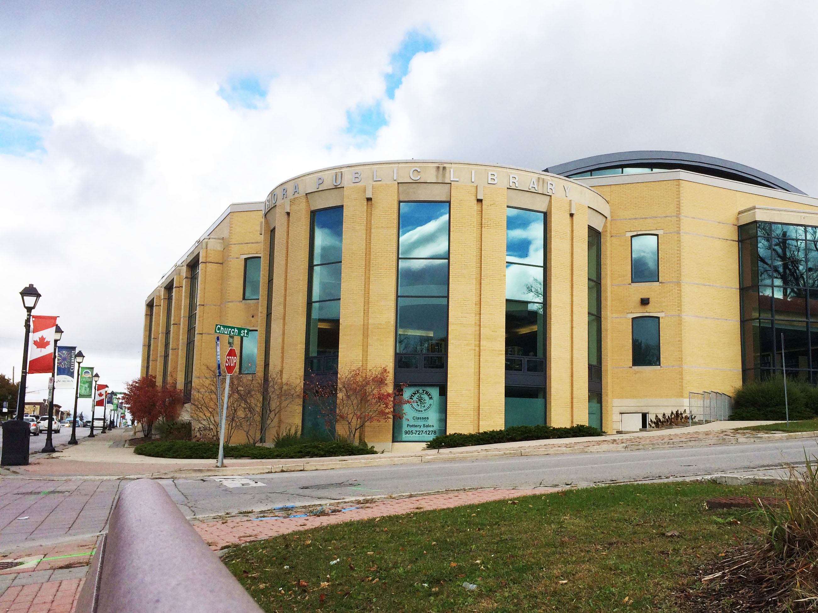 Aurora Public Library, Aurora, Ontario, Canada